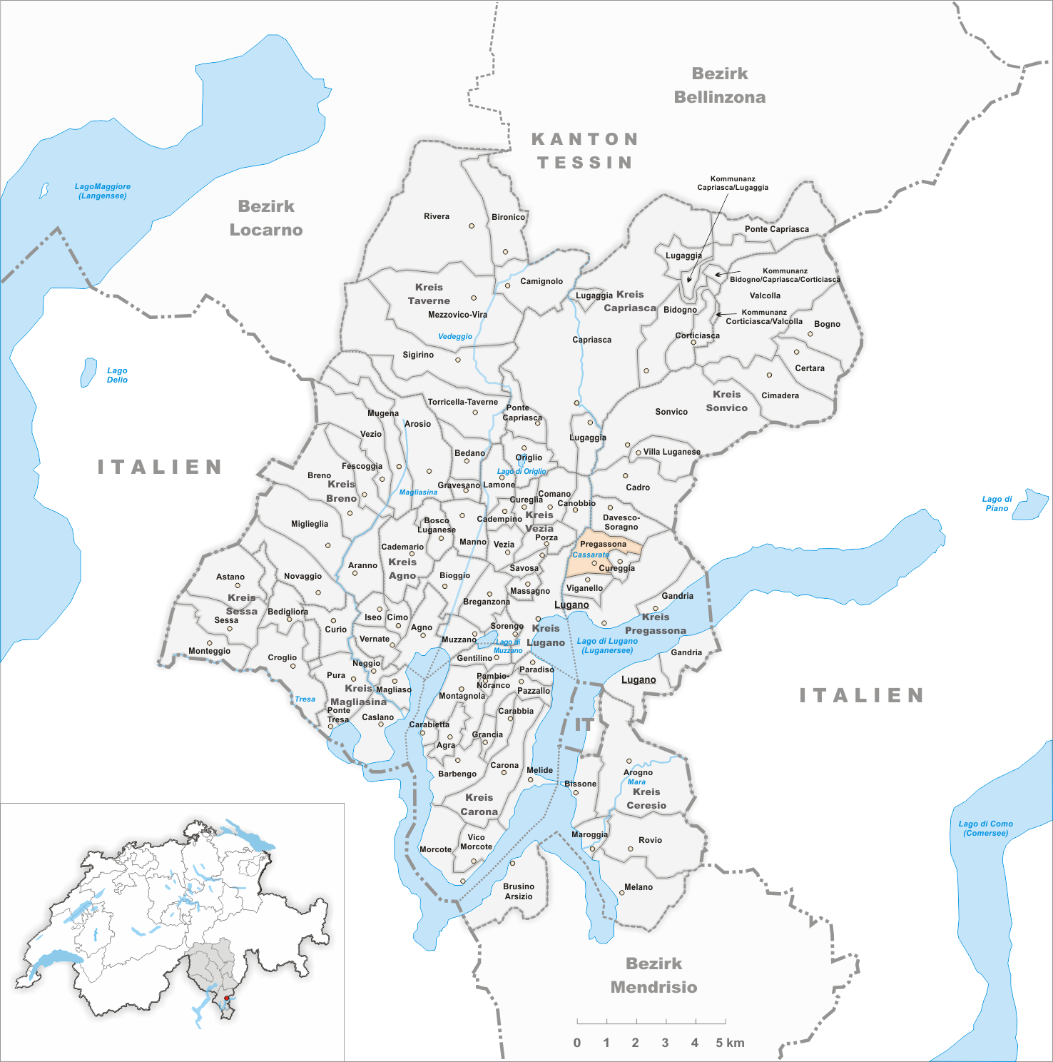 Municipality Pregassona Artist: Tschubby